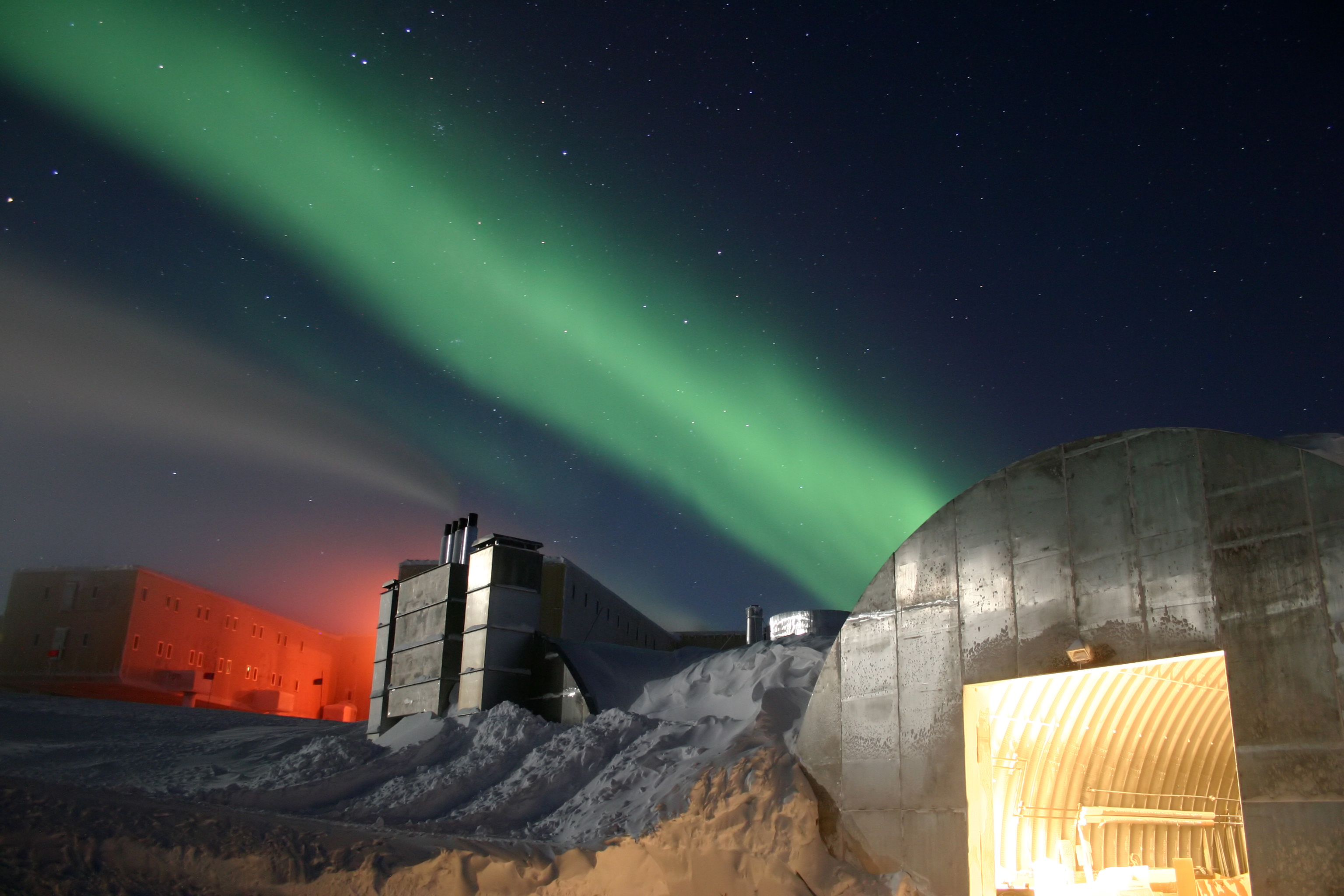 A full moon and 25 second exposure allowed sufficient light into this photo taken at Amundsen-Scott South Pole Station during the long Antarctic night. The new station can be seen at far left, power plant in the center and the old mechanic's garage in the lower right. Red lights are used outside during the winter darkness as their spectrum does not pollute the sky, allowing scientists to conduct astrophysical studies without artificial light interference. There is a background of green light. This is the Aurora Australis, which dances thorugh the sky virtually all the time during the long Antarctic night (winter).The photo's surreal appearance makes the station look like a futuristic Mars Station.